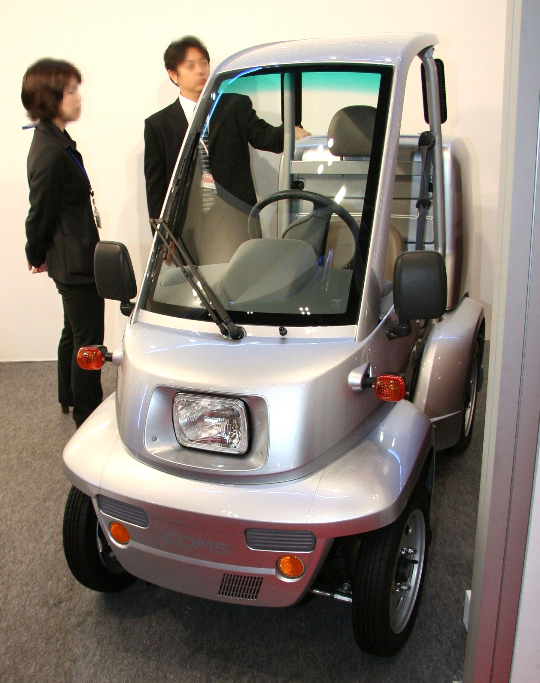 EVERYDAY COMS DELIVELY TYPE (ARACO)